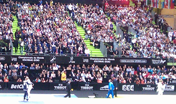 World Fencing Championship 2010, in Grand Palais, Paris. Final sabre women : Zagunis - Kharlan : after Zagunis's victory